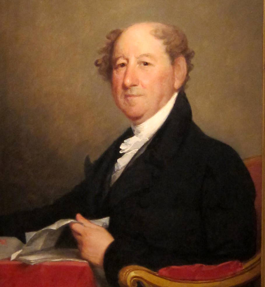 A portrait of Rufus King (1820, Gilbert Stuart) located in the National Portrait Gallery in Washington, D.C.